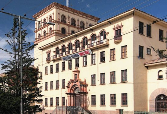 Tomas Frias University Central campus